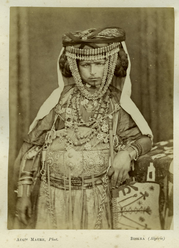 Biskra Ouled Nail